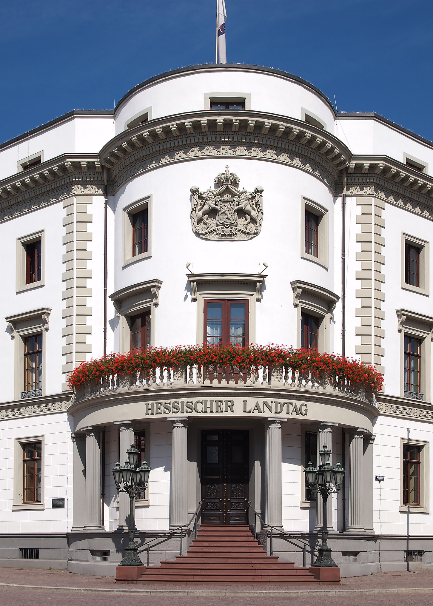 Wiesbaden City Palace - The Landtag of Hesse at Wiesbaden